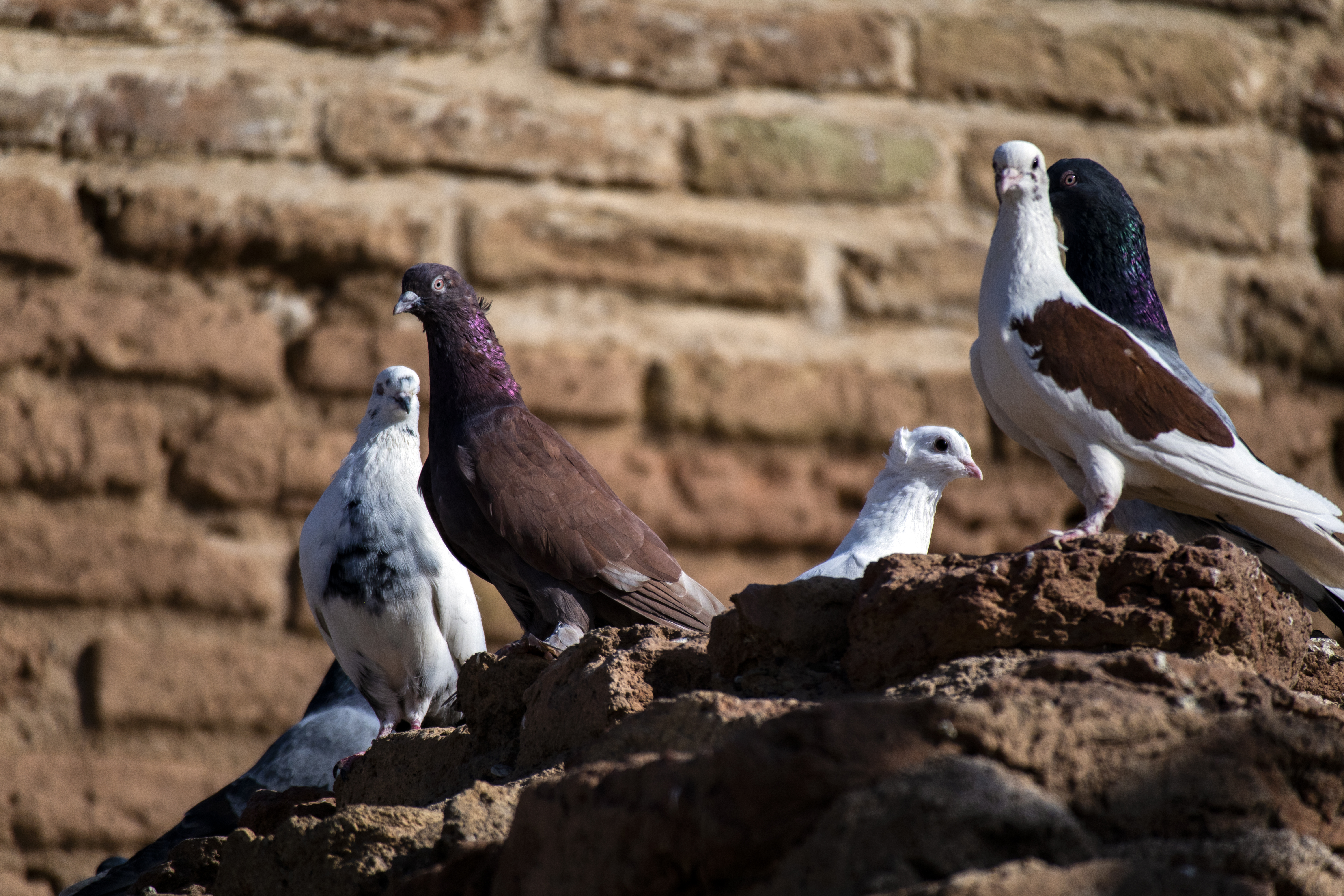 Deir-e Gachin Caravansarai is one of the greatest caravansarais of Iran which is located in the center of Kavir National Park. Its unique qualities is the reason it is called “Mother of Iranian Caravansarais”. It is located in the Central District of Qom County, 80 kilometers north-east of Qom (60 kilometers into Garmsar Freeway) and 35 kilometers south-west of Varamin. (Photo by: Mostafa Meraji, wiki loves monuments 2018)